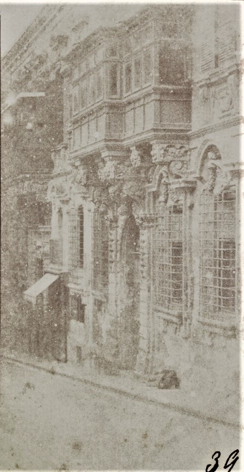 Calvert Jones, Strada Vescovo, Valletta, Malta 1846